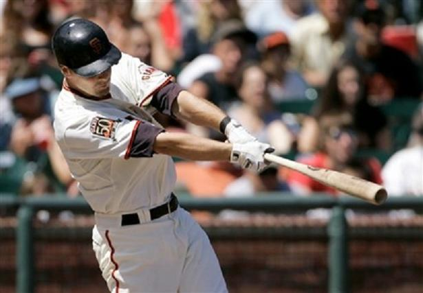 Ryan against Florida